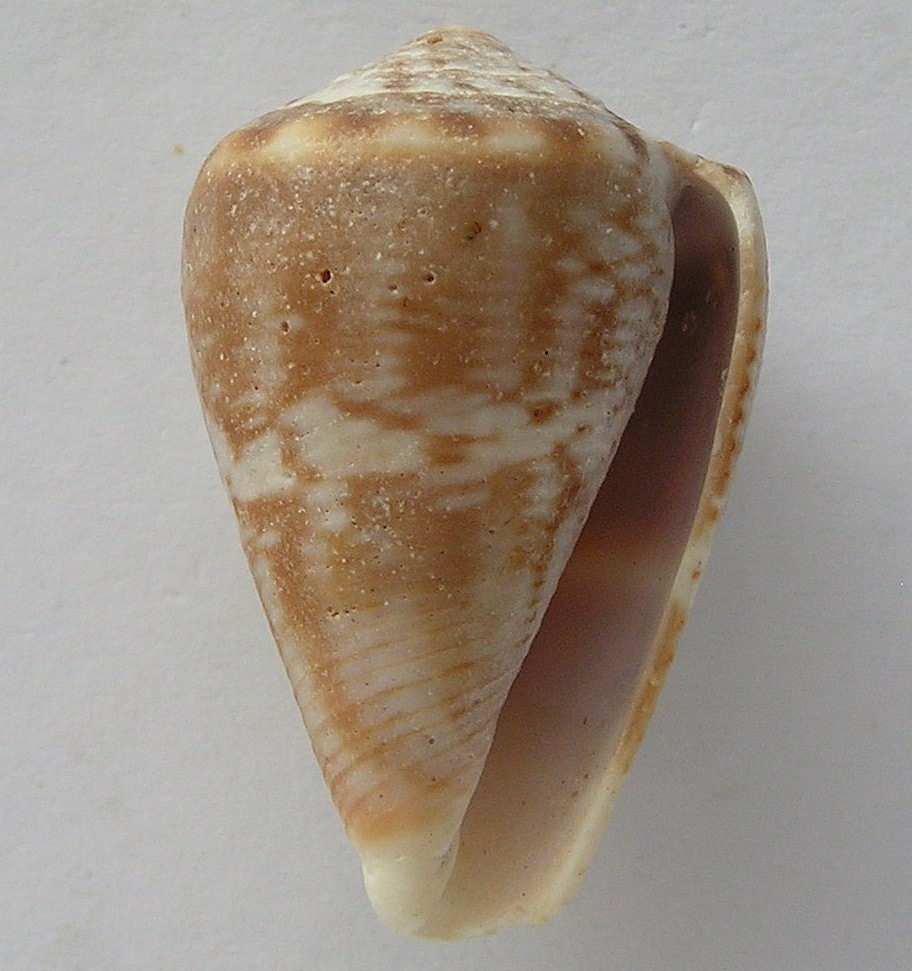 Conus encaustus Kiener, 1845 ; Marquesas Islands